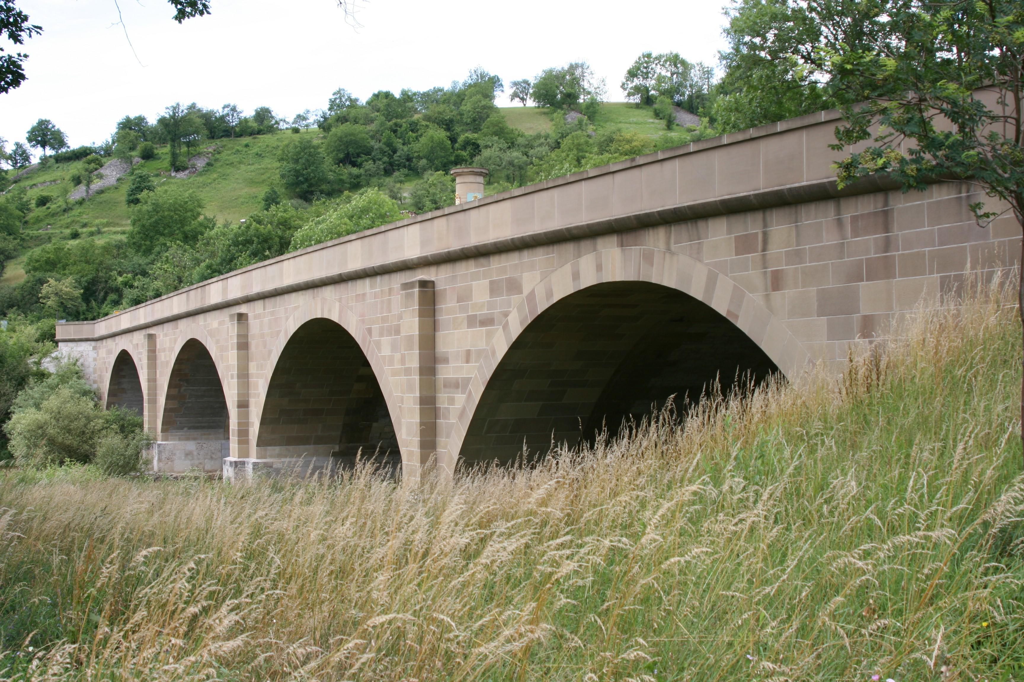 The bridge from 1810 across the river Jagst in Dörzbach-Hohebach from the South